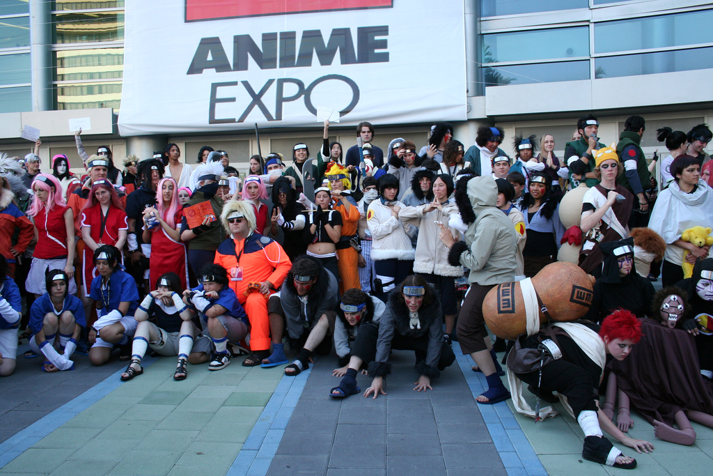 Naruto cosplay at Anime Expo 2006.